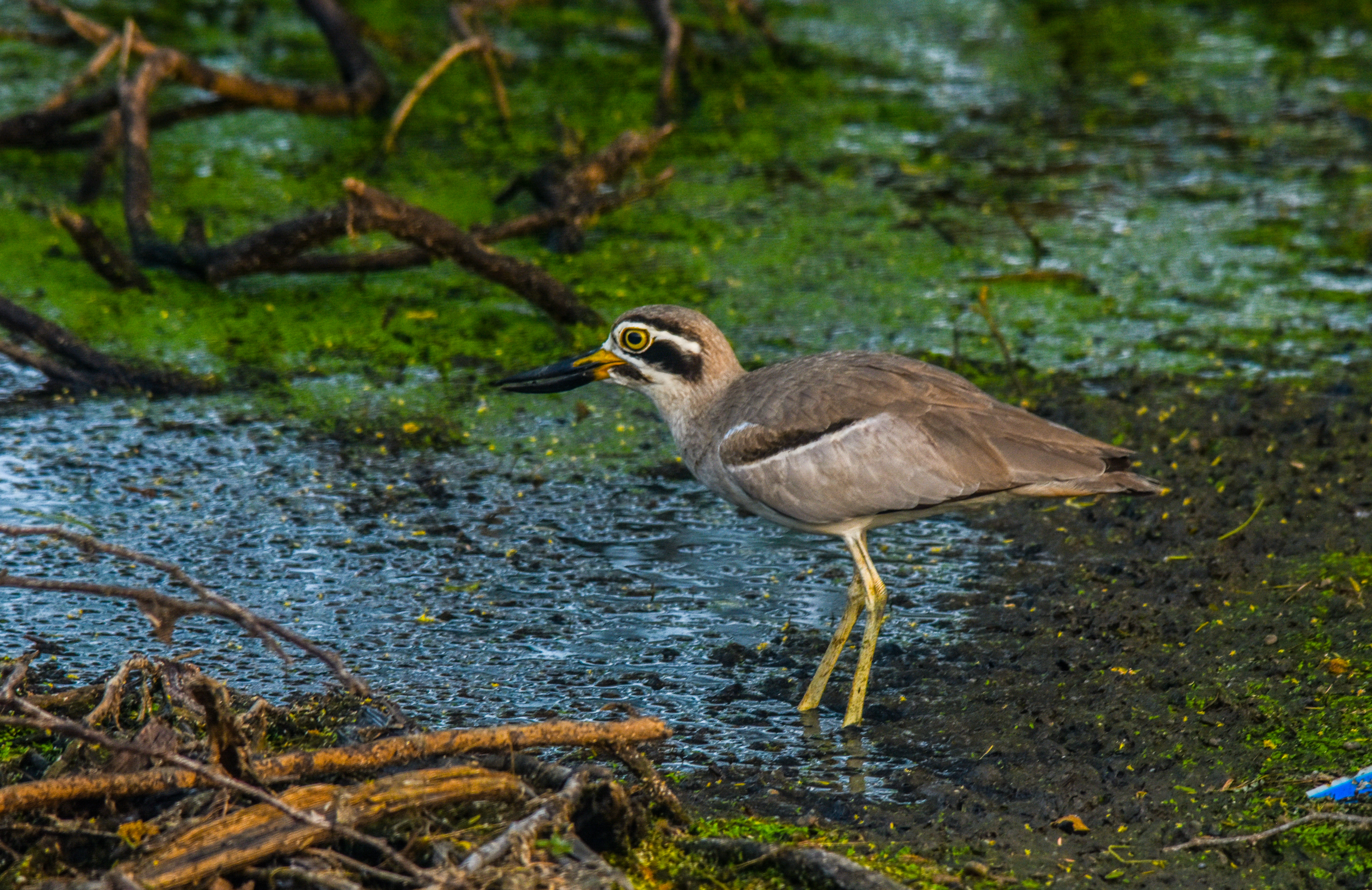 A Great Stone plover at Bundala Bird Sanctuary, Southern Province, Sri Lanka